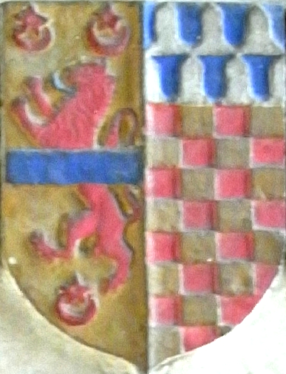 Arms of Robert Dillon of Bratton Fleming impaling paternal arms of Grace Chichester, a daughter of Sir John Chichester (d.1569) of Raleigh in the parish of Pilton, Devon. As sculpted on the monument to Sir John Chichester (d.1569) in Pilton Church. Chichester: Chequy or and gules; Dillon: Azure, a lion rampant between three crescents an estoile issuant from each gules over all a fess azure (Vivian, Visitation of Devon 1620, Dillon, p.284)